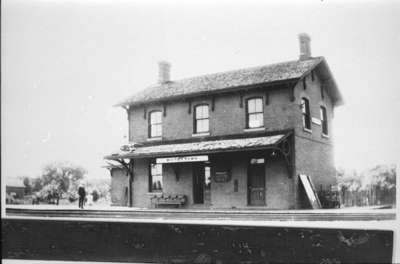 The Whitby Town station on the Port Whitby & Port Perry Railway. The photographer is looking south-west across the tracks. Hickory Street is just behind the station and Dundas (Kingston Road/Highway 2) to the left. The engine house was located a few blocks to the north-east, and the interconnection with the Grand Trunk about two kilometres south.